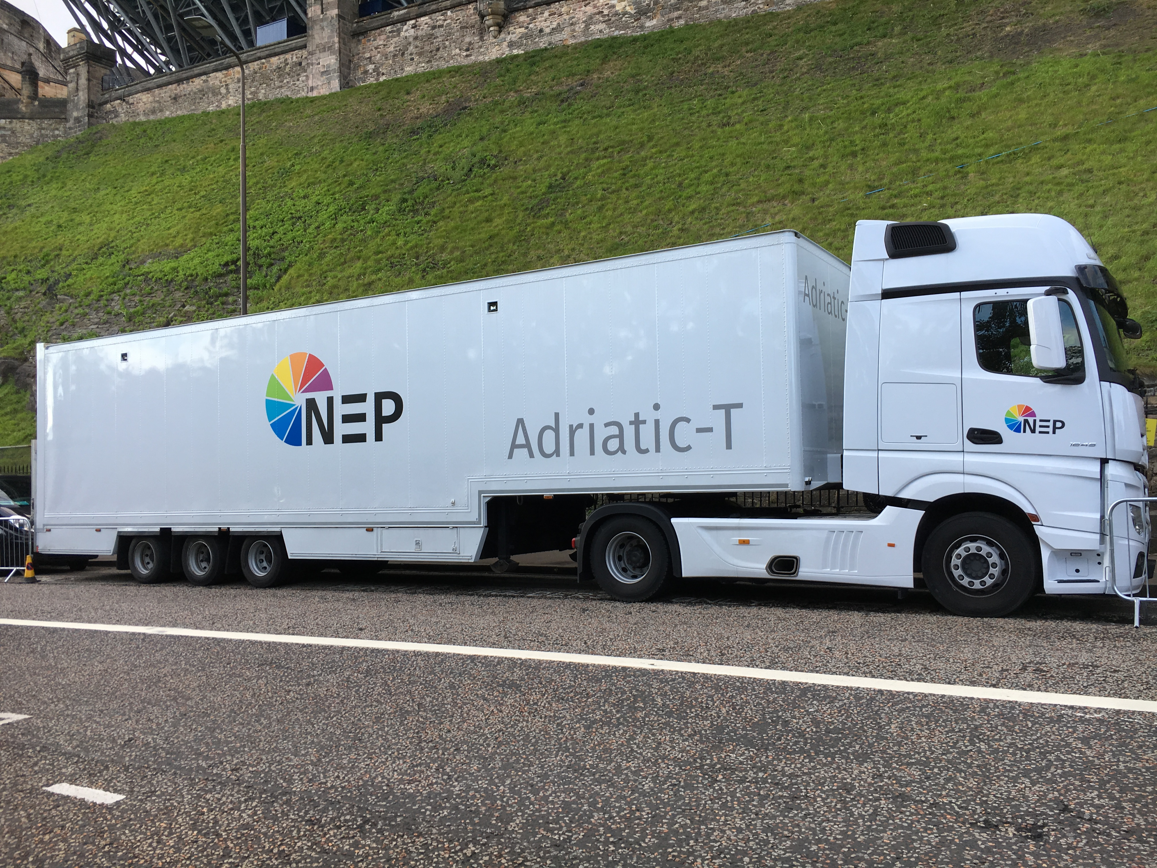 NEP UK's Adriatic-T tender vehicle at Edinburgh Castle for the 2017 Royal Edinburgh Military Tattoo.